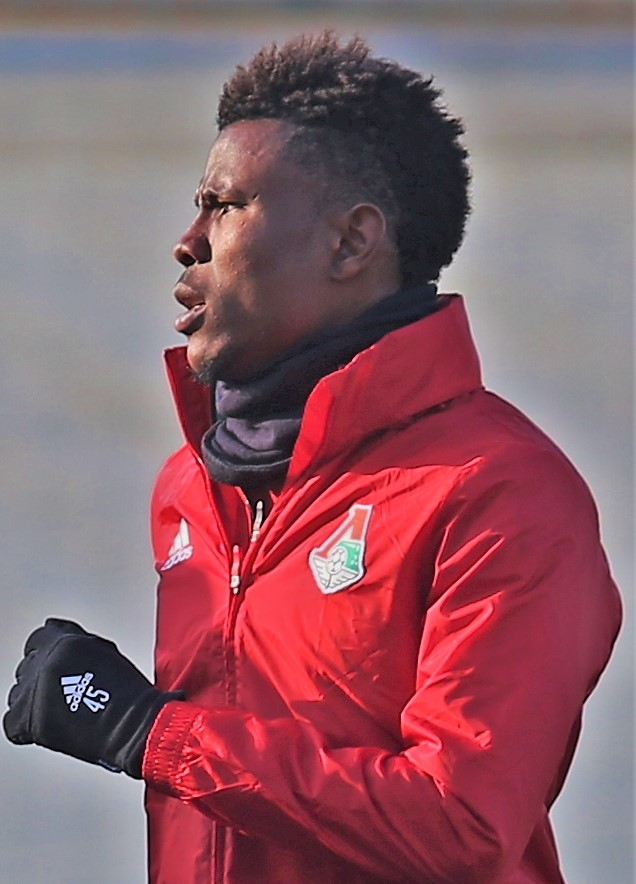 Ezekiel Henty